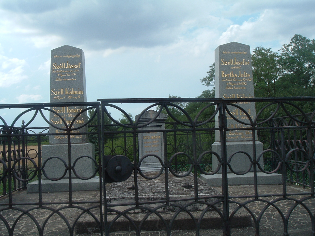 The grave of the Széll family in Táplánfa